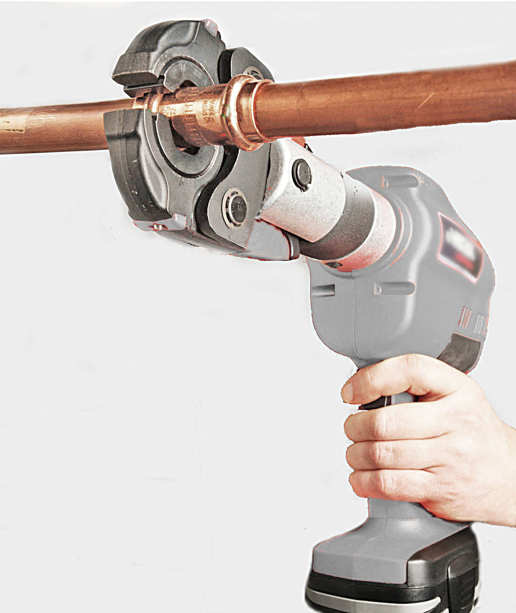 Crimper for copper pipe.